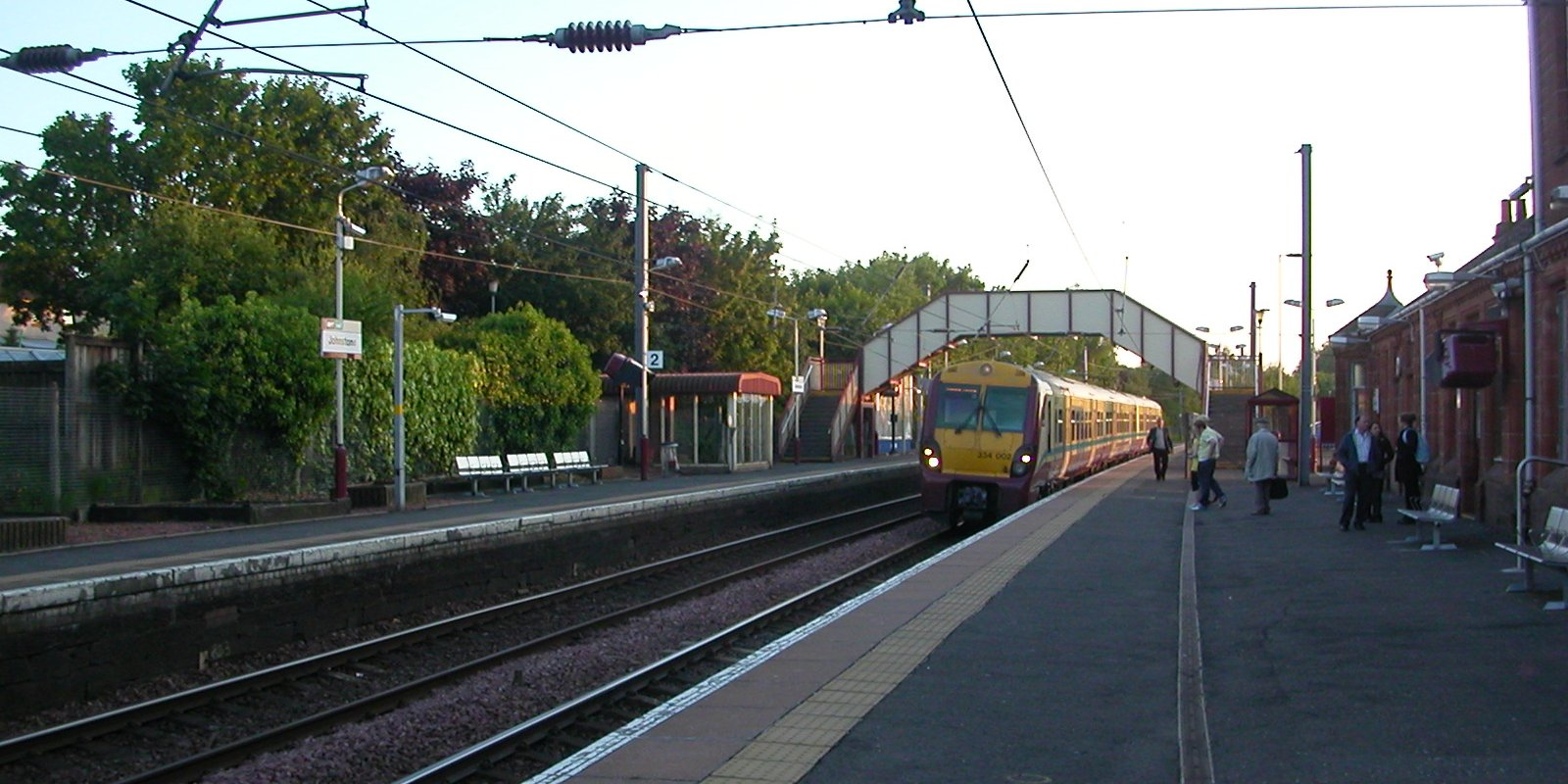 334002 arrives at Platform 1 at Johnstone station (Renfrewshire) with the 2028 Ardrossan Harbour-Glasgow Central service. Photographed on 6th June 2007.